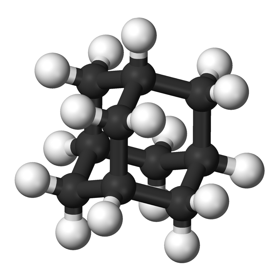 Ball and stick model of the adamantane molecule.